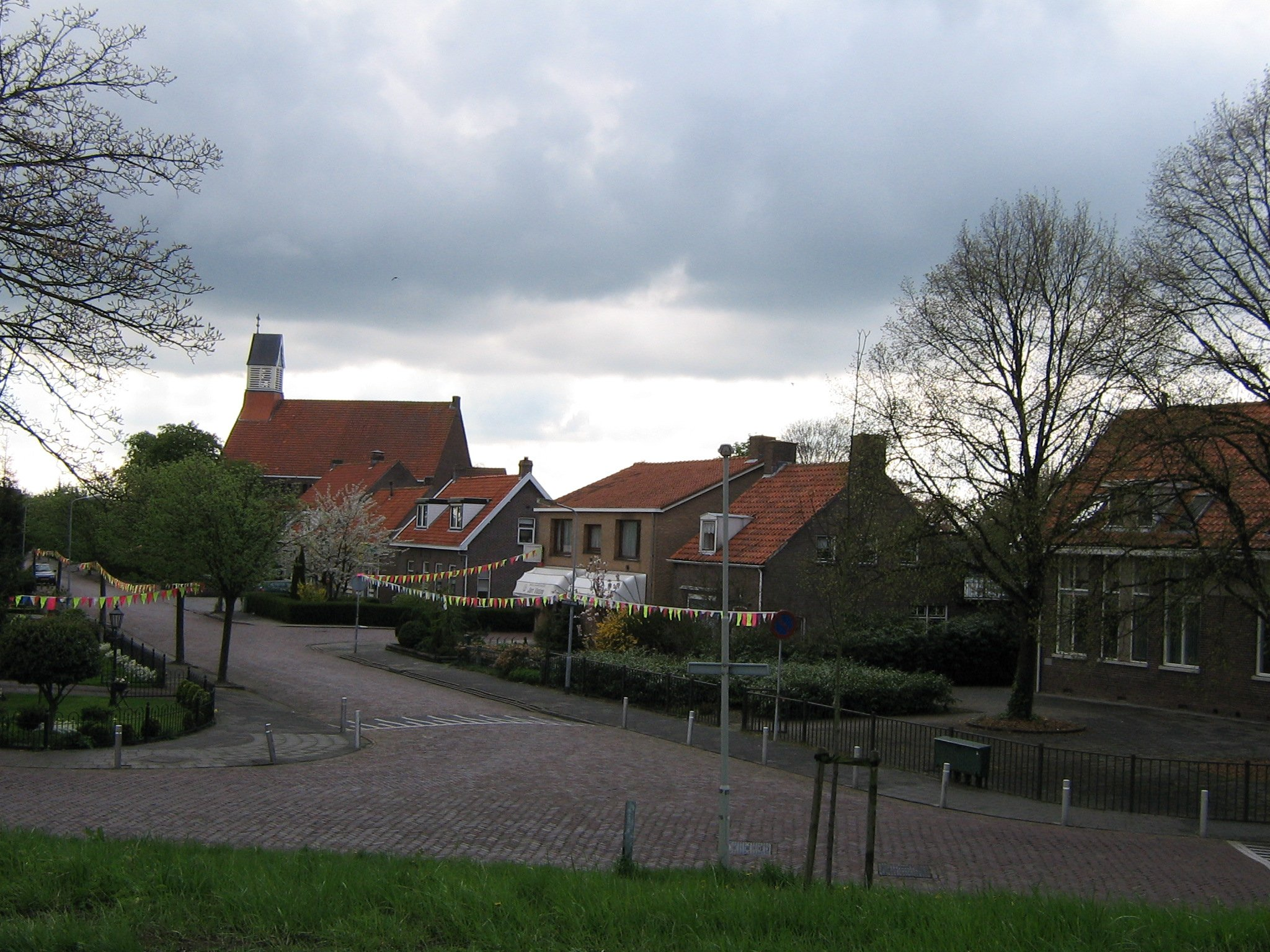 Lewedorp, Zeeland Lewedorp, Borsele community, Netherlands